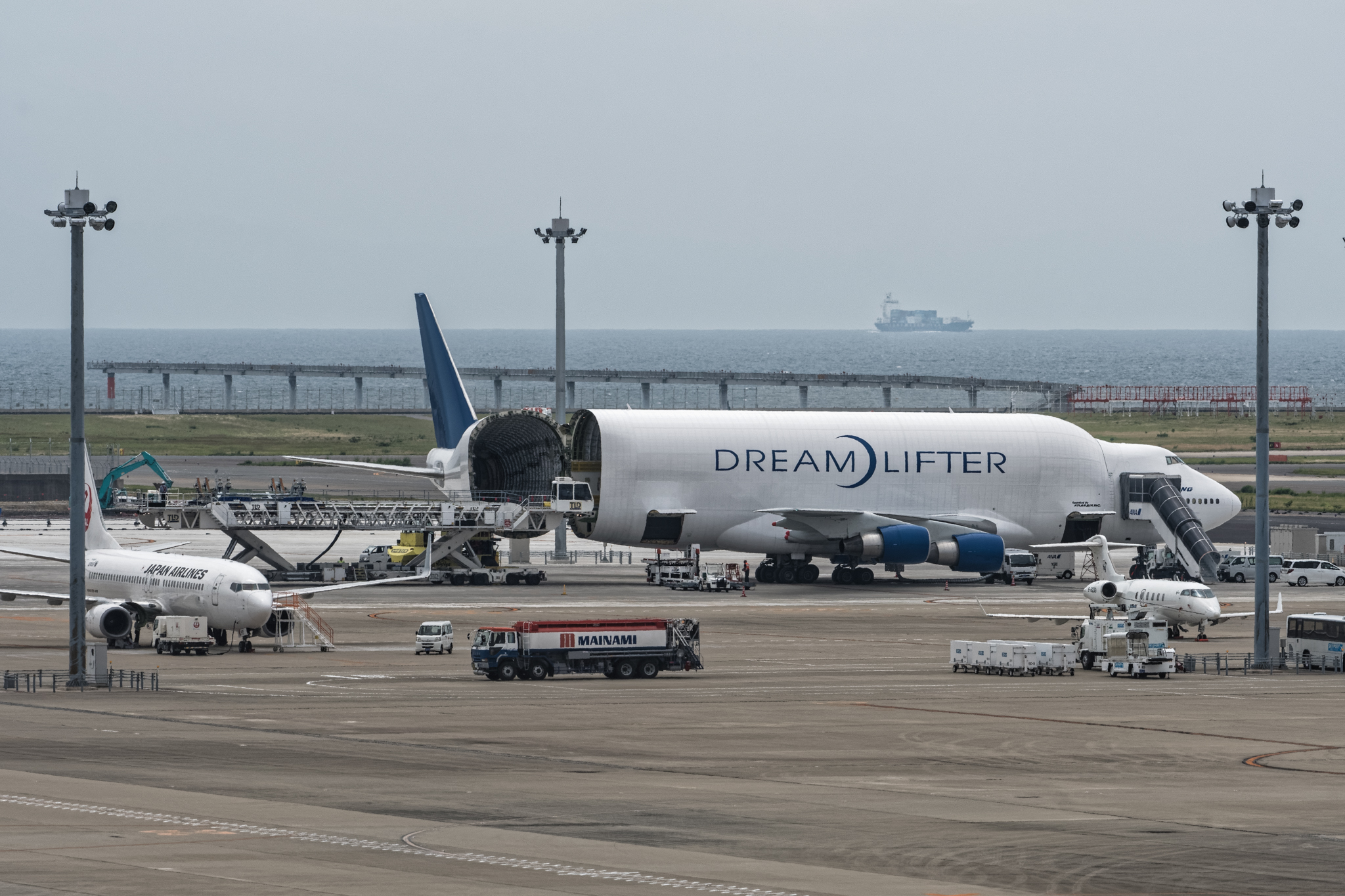 Chubu Centrair International Airport, Nagoya